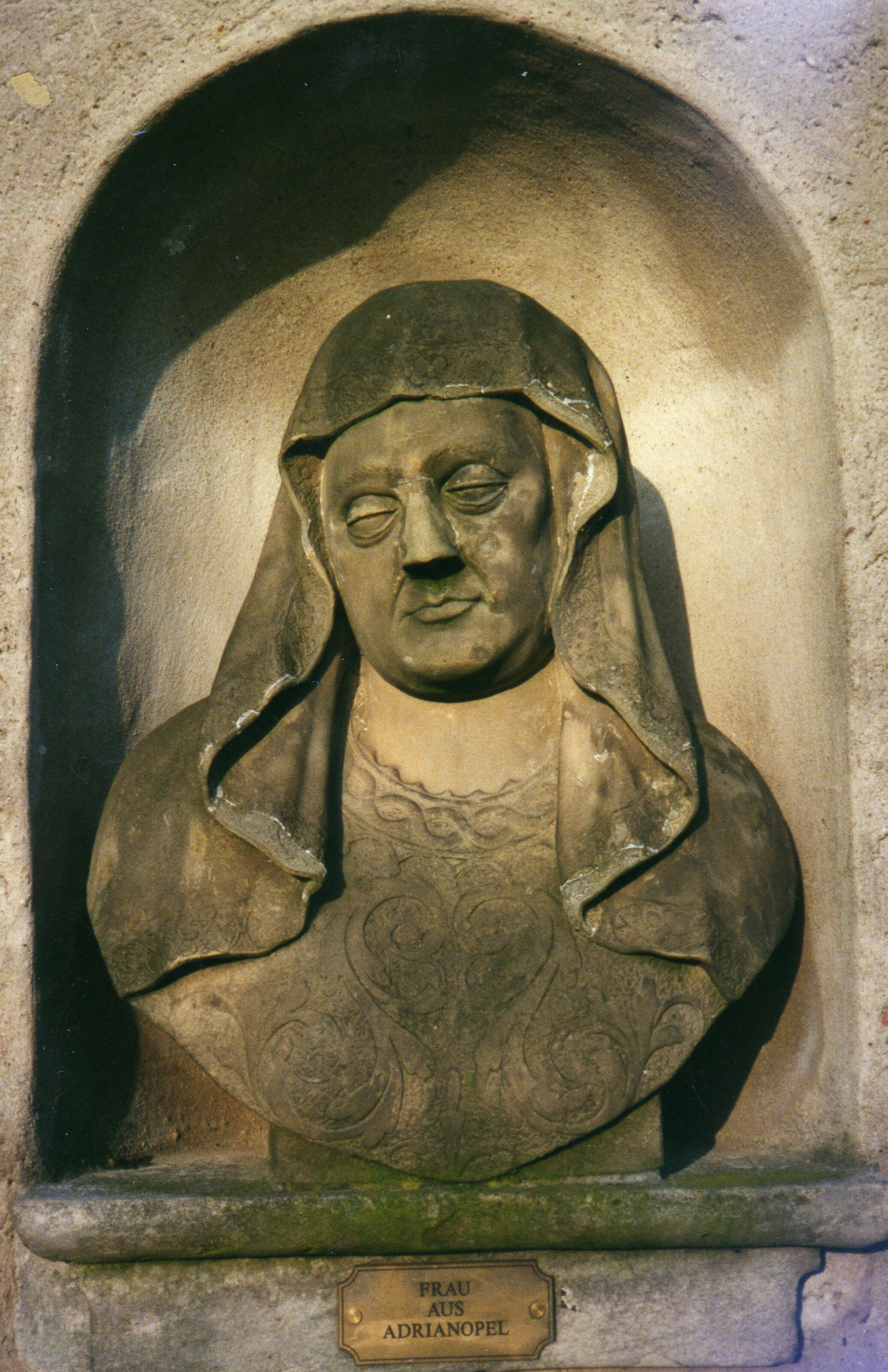 Bust in park of Schloss Kromsdorf